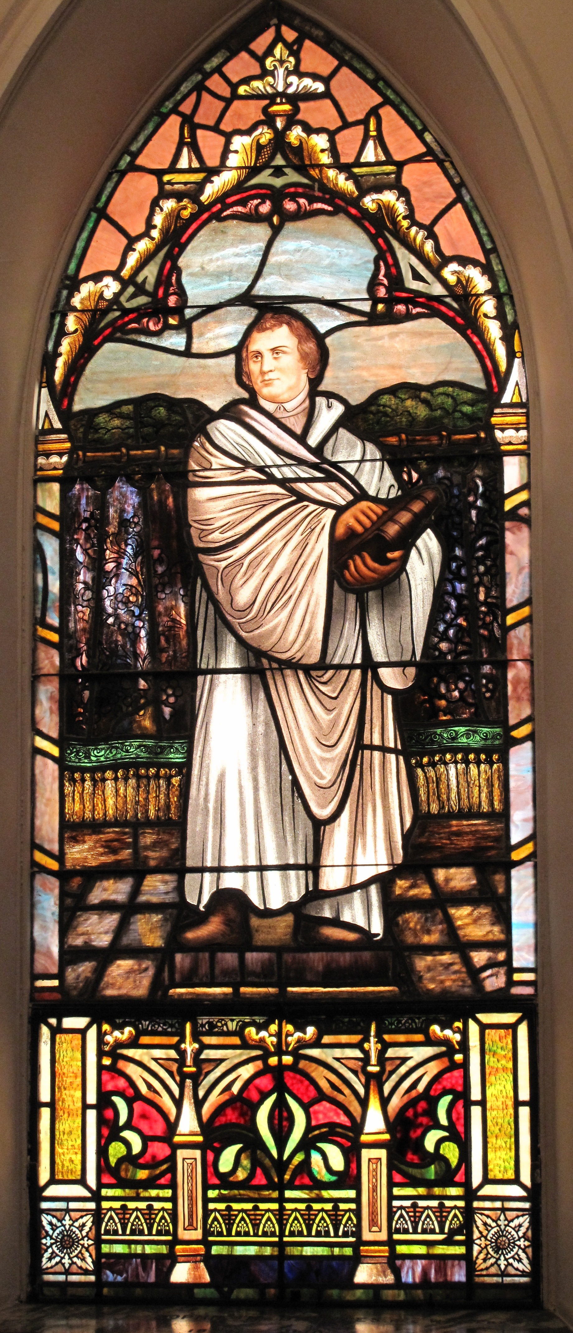 The Martin Luther window at St. Matthew's Lutheran Church in Charleston, SC